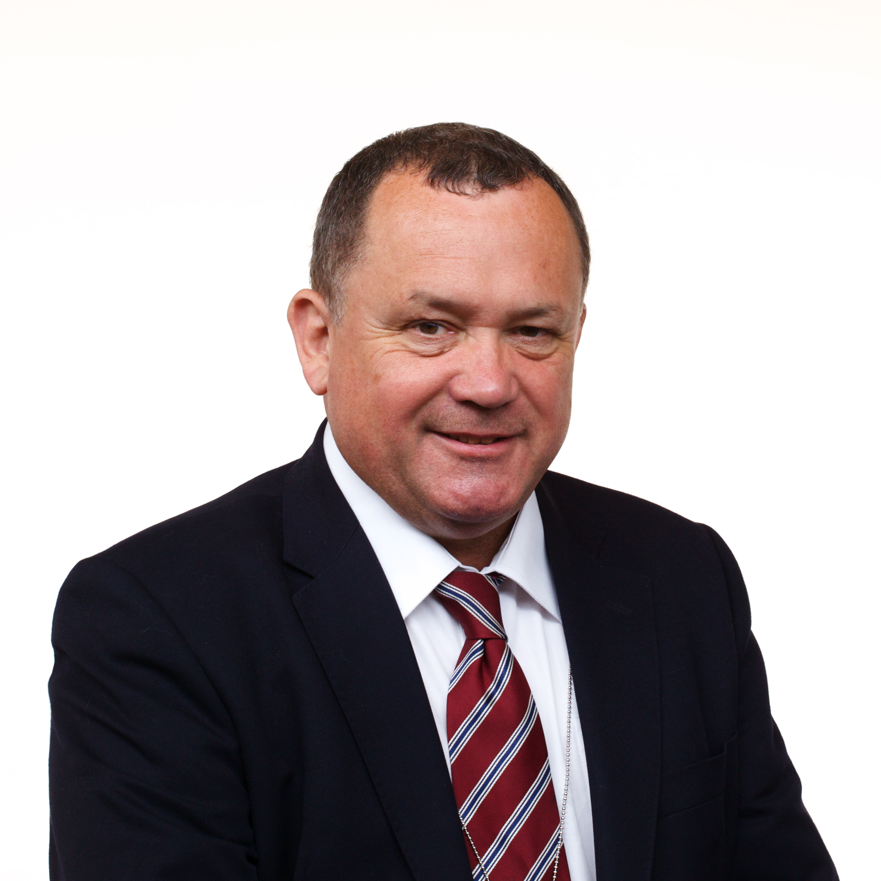 Lindsay Whittle AM, member of the National Assembly for Wales.